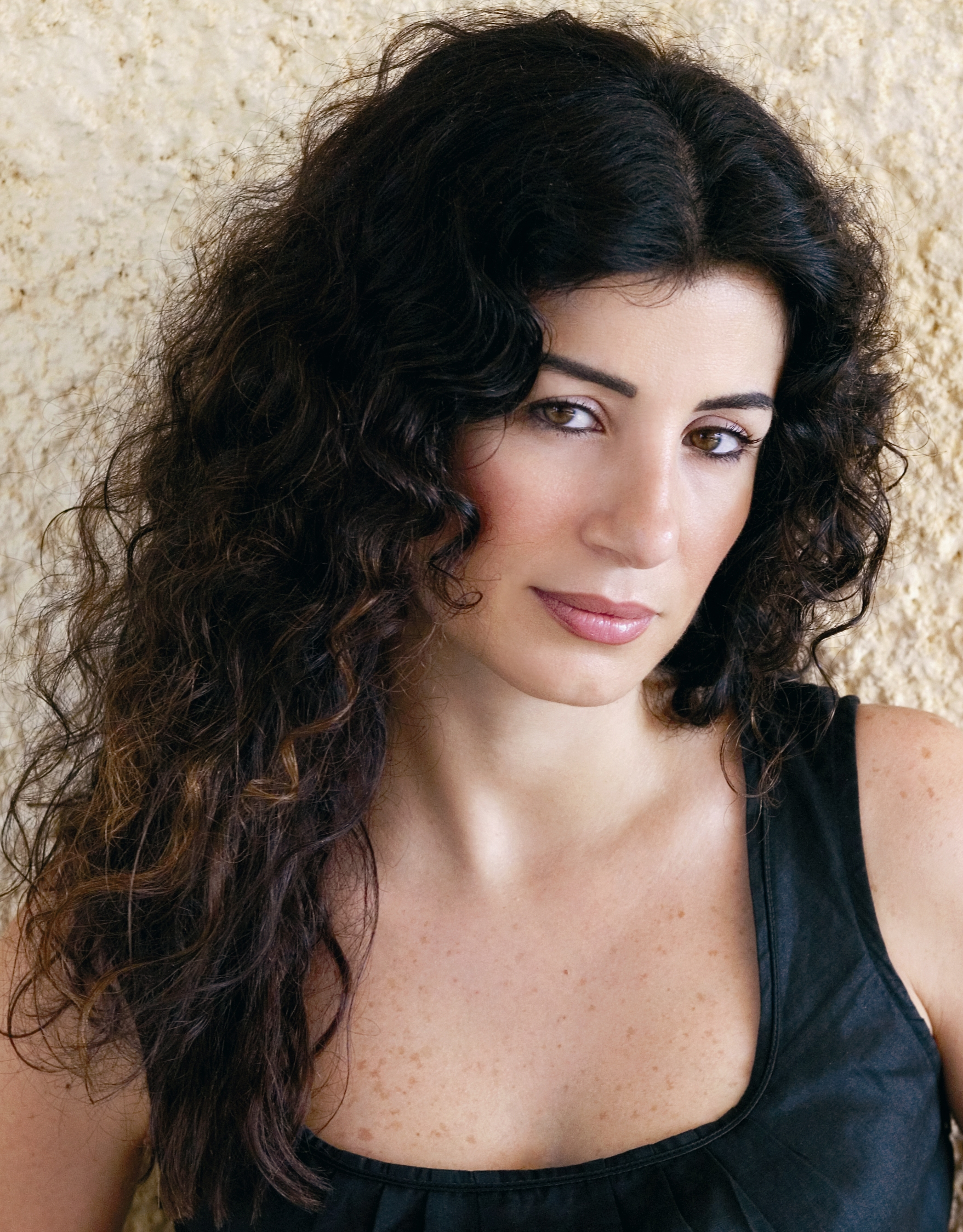 Joumana Haddad on august 2007.